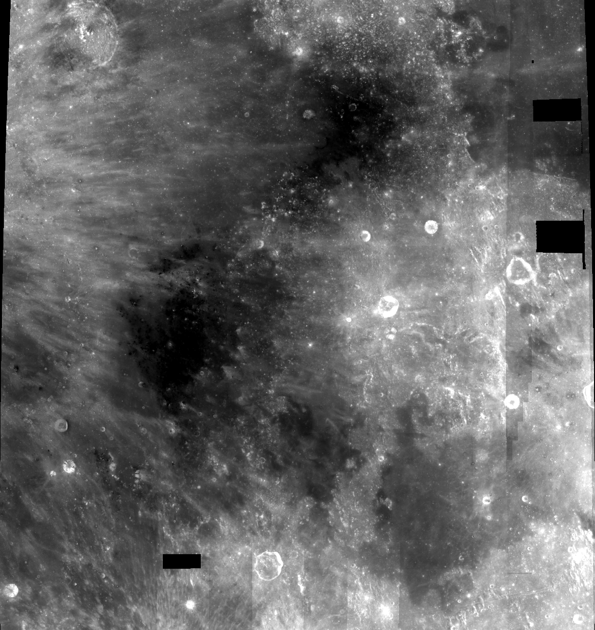 Sinus Medii on the Moon